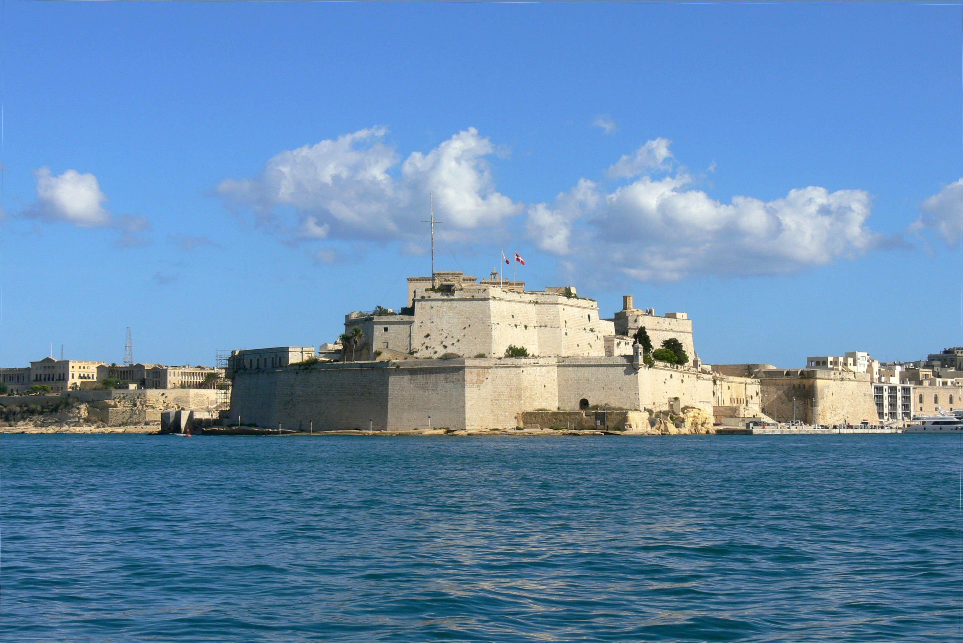 Fort S. Angelo (Birgu, Malta) seen from the Grand Harbour